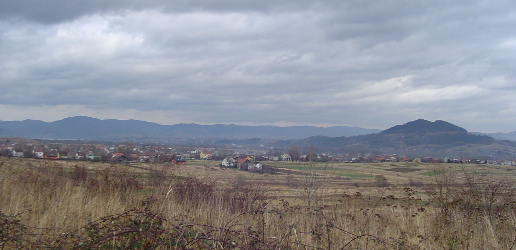 Village Radziechowy in South Poland near Żywiec